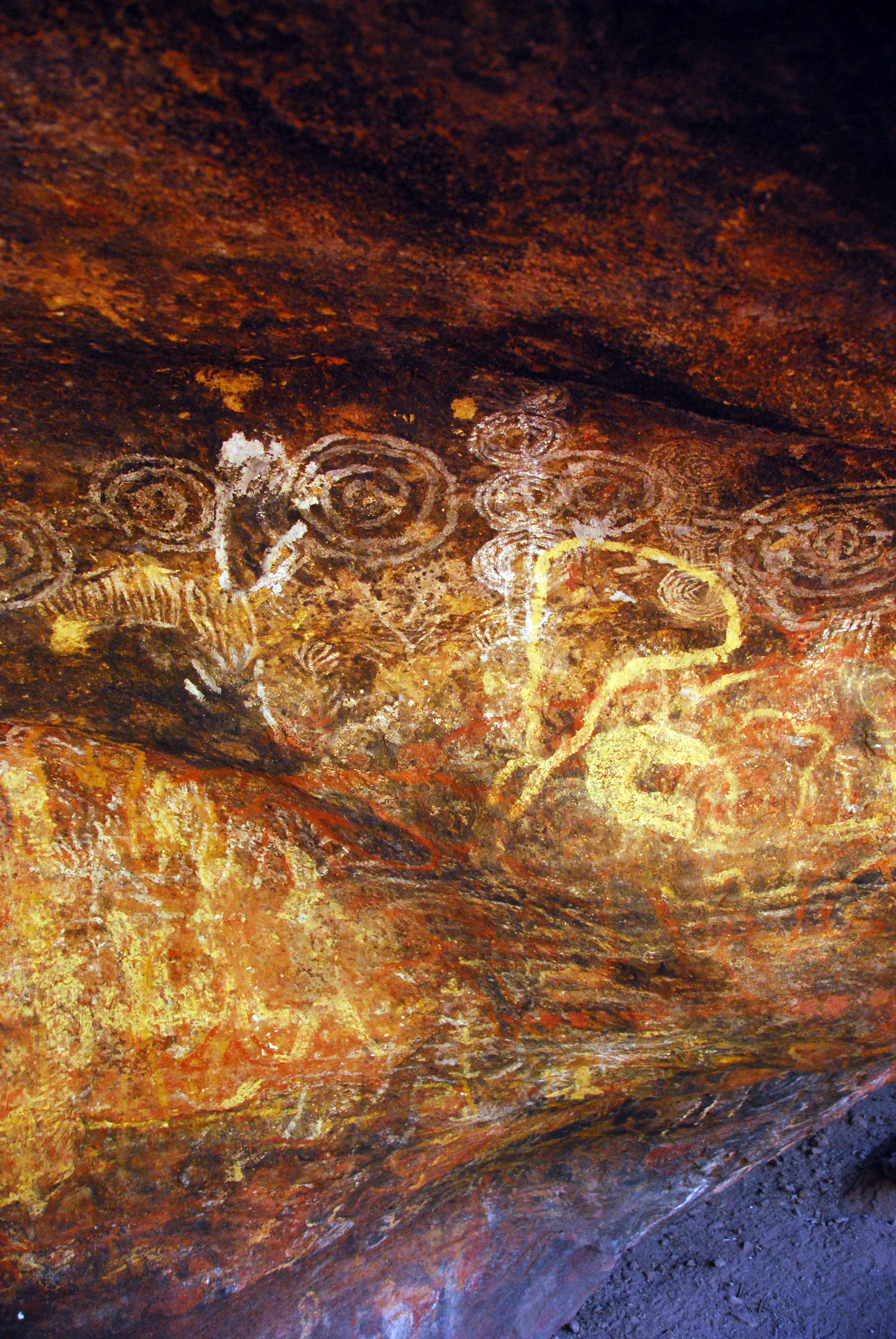 Anangu cave art at Uluru